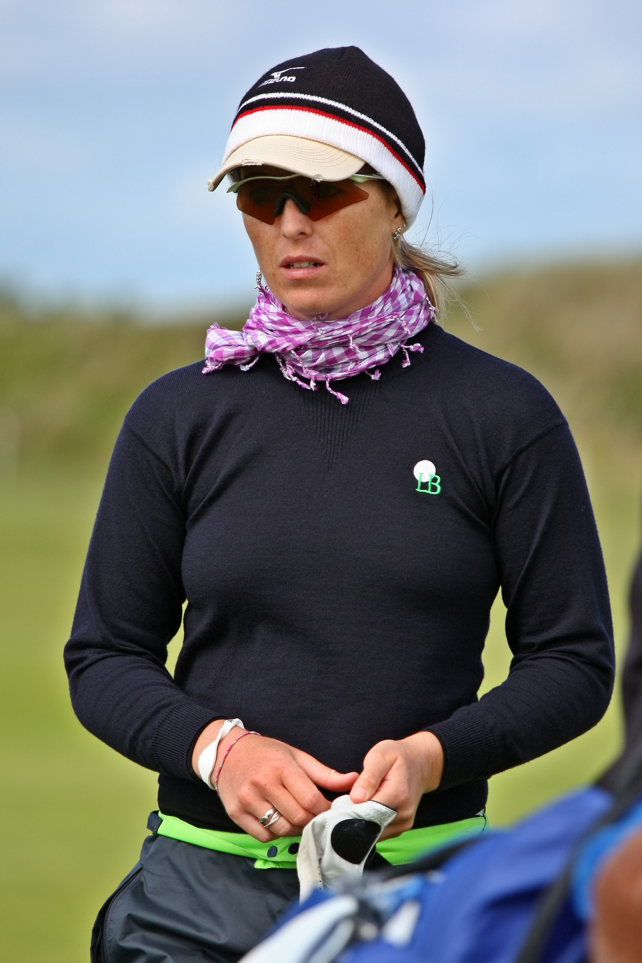 SOUTHPORT, UNITED KINGDOM - JULY 28: Sophie Sandolo of Italy on the 9th green during third practice round before 2010 Ricoh Women's British Open held at Royal Birkdale on July 28, 2010 in Southport, England. (Photo by Wojciech Migda)